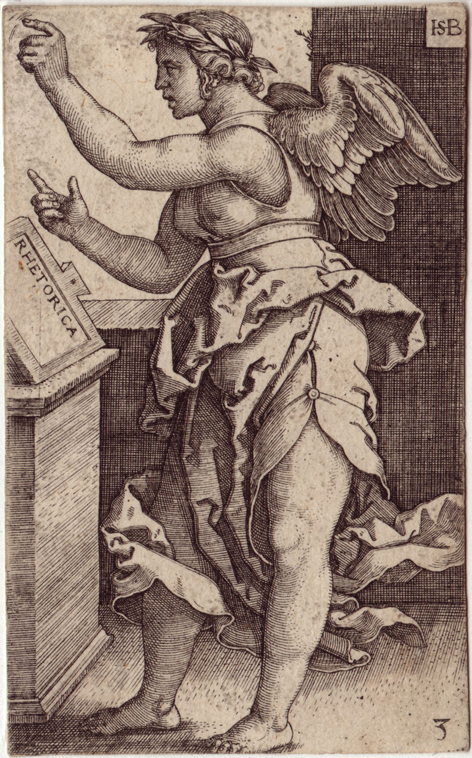 Beham, (Hans) Sebald (1500-1550): Rhetorica (B.123, P.125), from The Seven Liberal Arts, P., Holl. 123-129. First state of two.